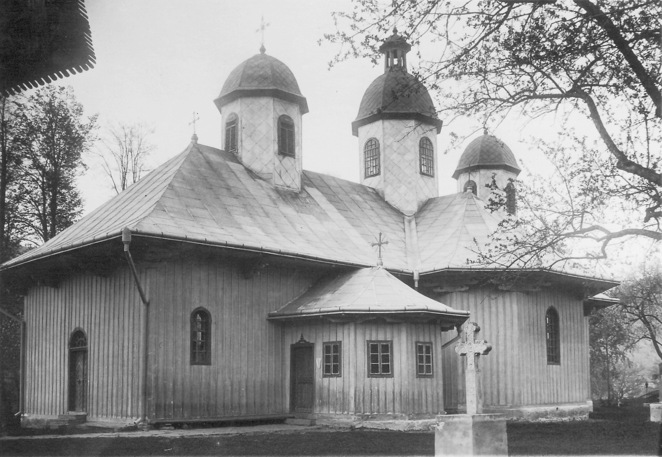 Wooden church in Câmpulung Moldovenesc (image from the archive of the Metropolitan of Moldavia, 1936, free of copyright)